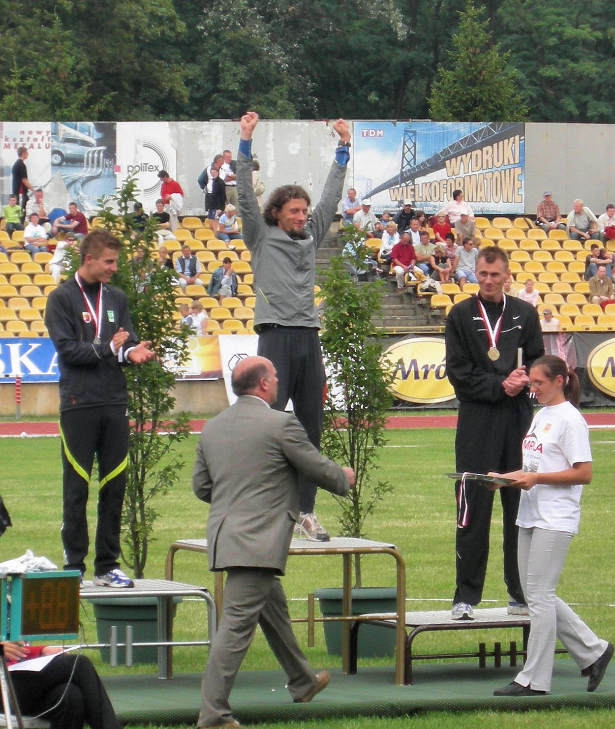 athletes from Poland during Polish Championship in athletics 2007 - Poznań, winner - Paweł Czapiewski